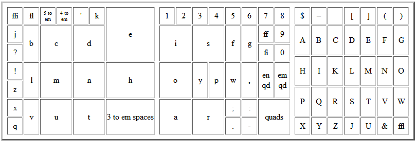 A Modern California Job Case Layout